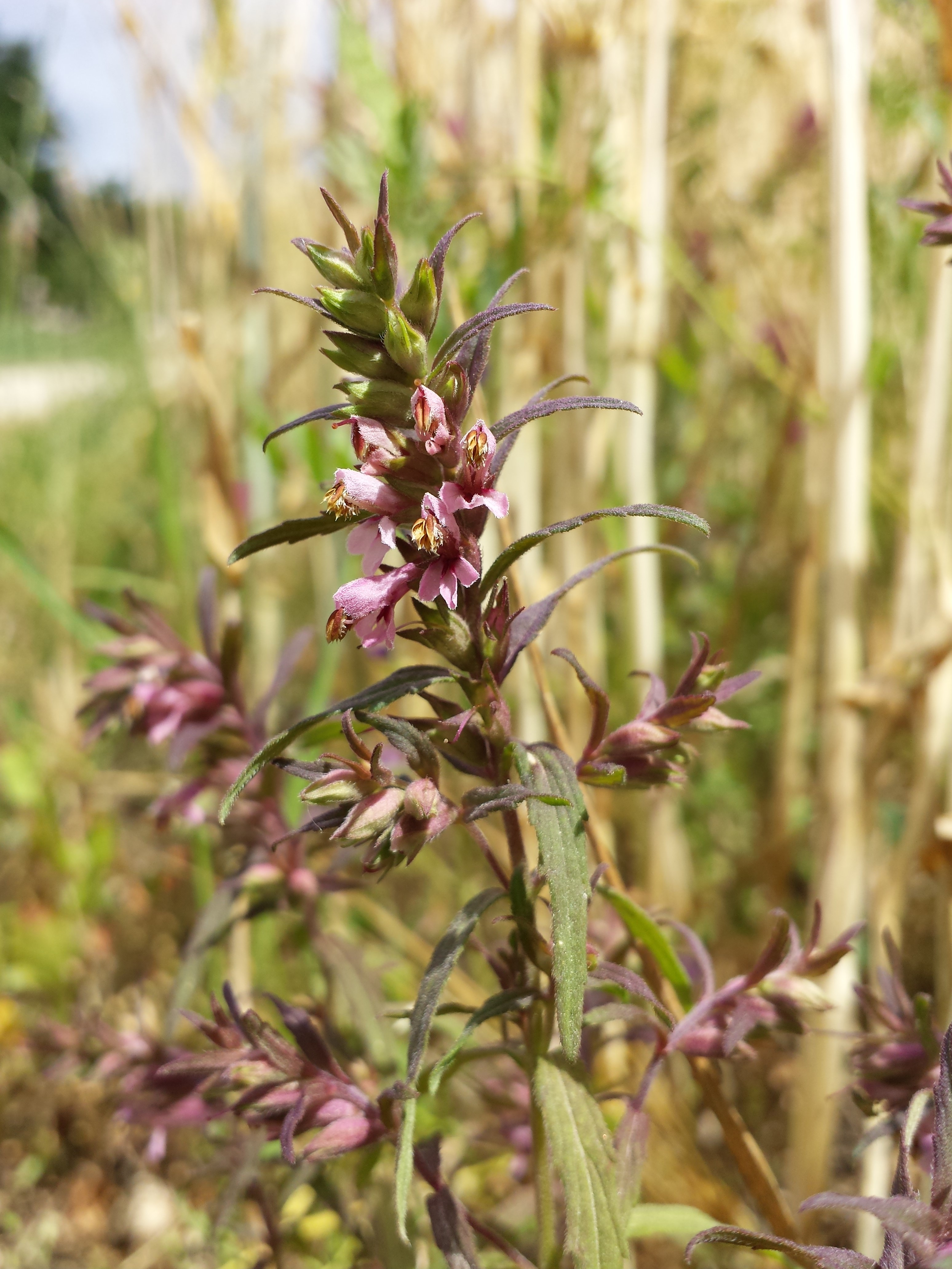 Habitus Taxon: Odontites vernus (sensu Fischer et al. EfÖLS 2008 ISBN 978-3-85474-187-9) Location: Leiser Berge, district Korneuburg, Lower Austria - ca. 400 m a.s.l. Habitat: grainfield